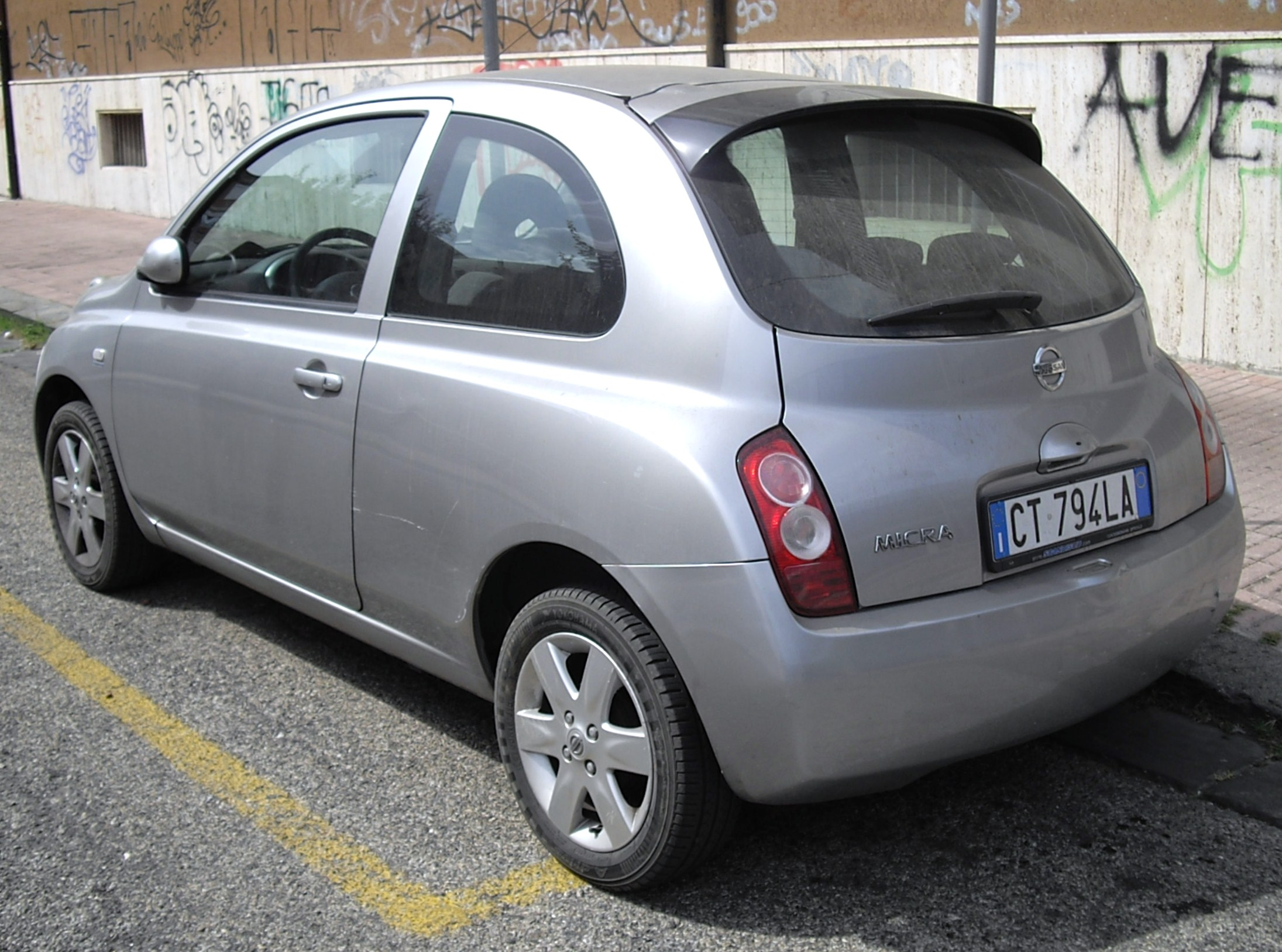 Nissan Micra